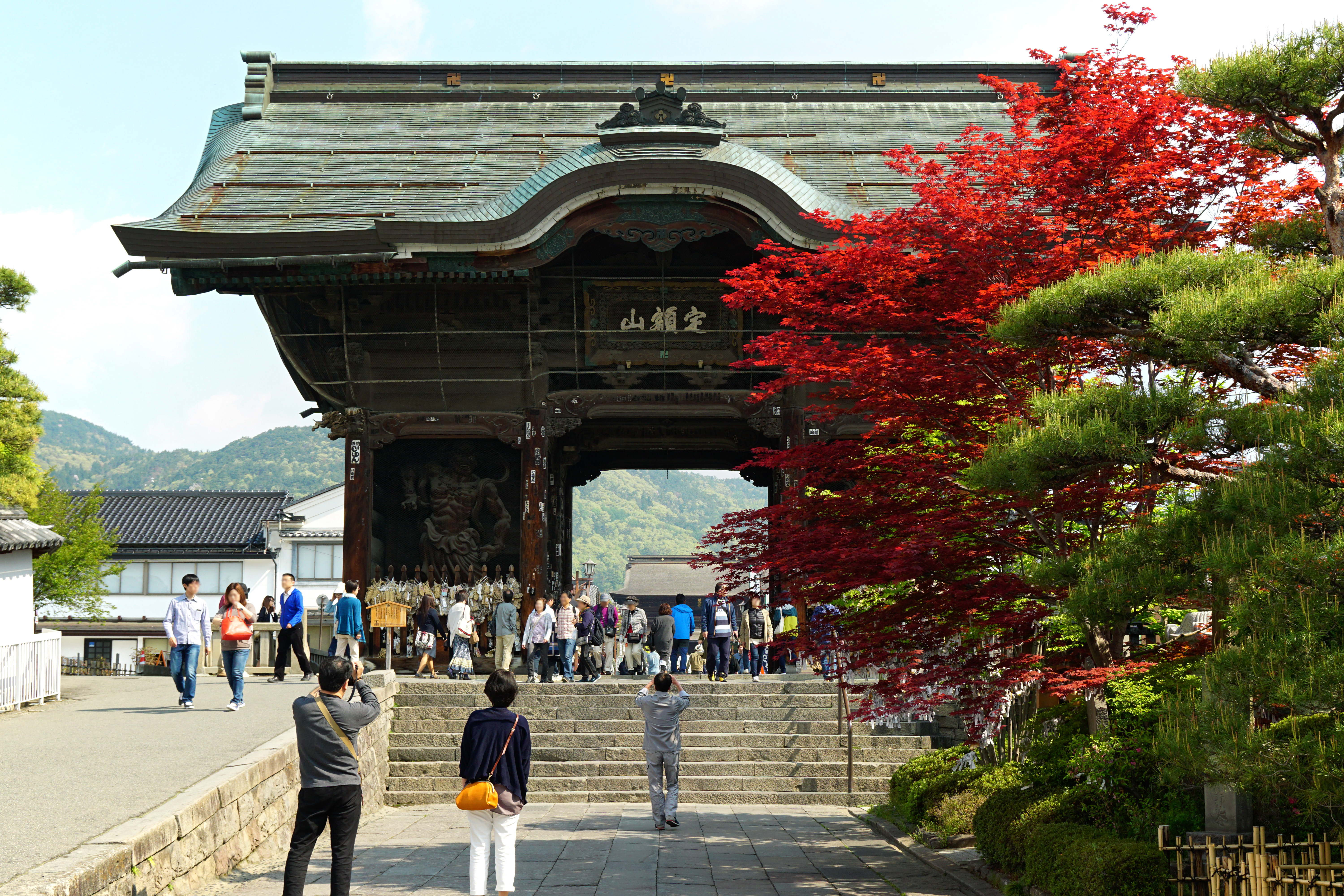 Zenkō-ji in Nagano, Nagano prefecture, Japan.